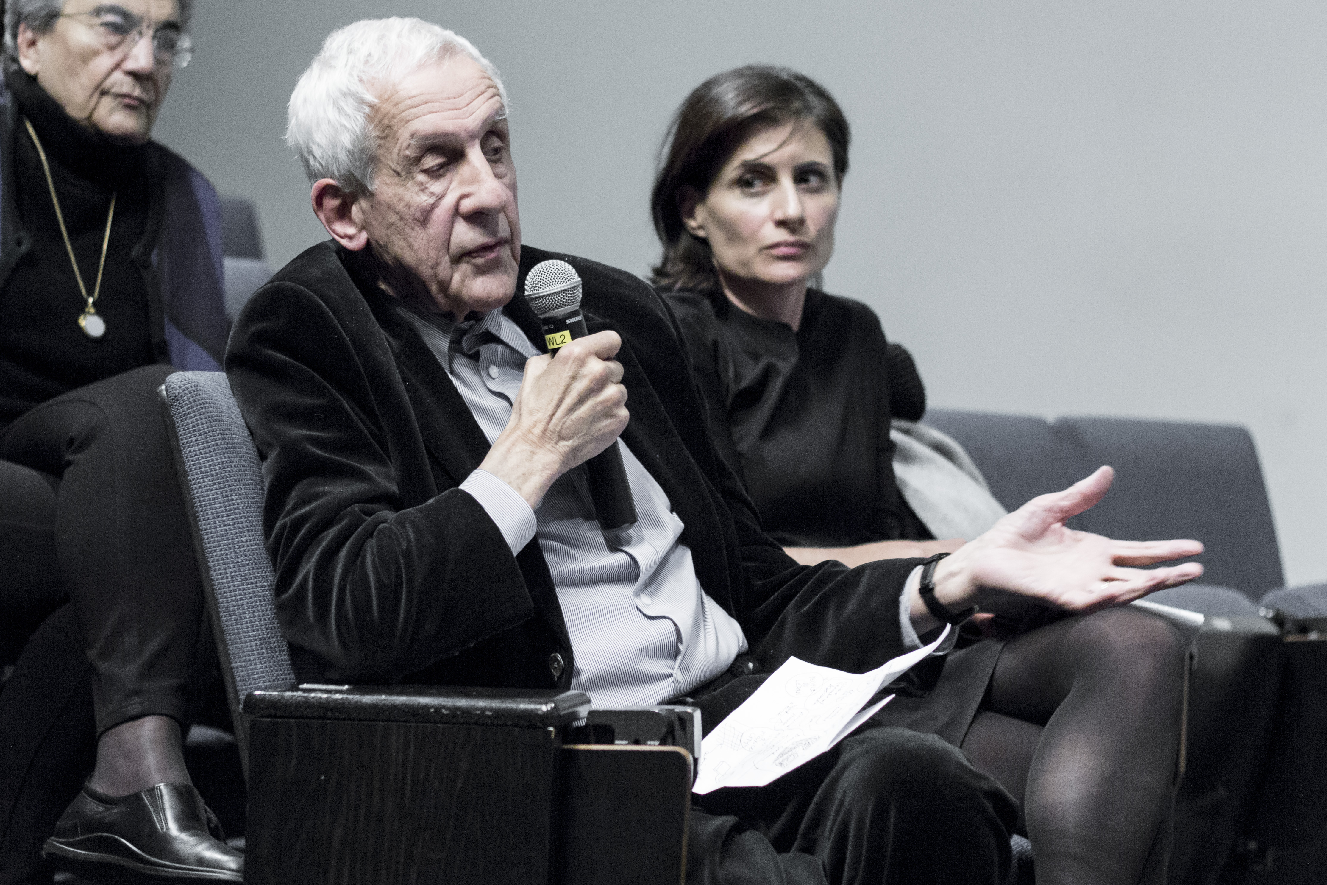 On November 7, GSAPP welcomes exemplary Mexican architects with solid groups of diverse built work, Tatiana Bilbao, and Frida Escobedo. What is it like to practice architecture in Mexico today? Bilbao and Escobedo will present a snapshot of a tectonic culture in their bustling metropolis, and share how it has influenced and shaped their work—an accomplished range from private homes to museums to sites of worship.